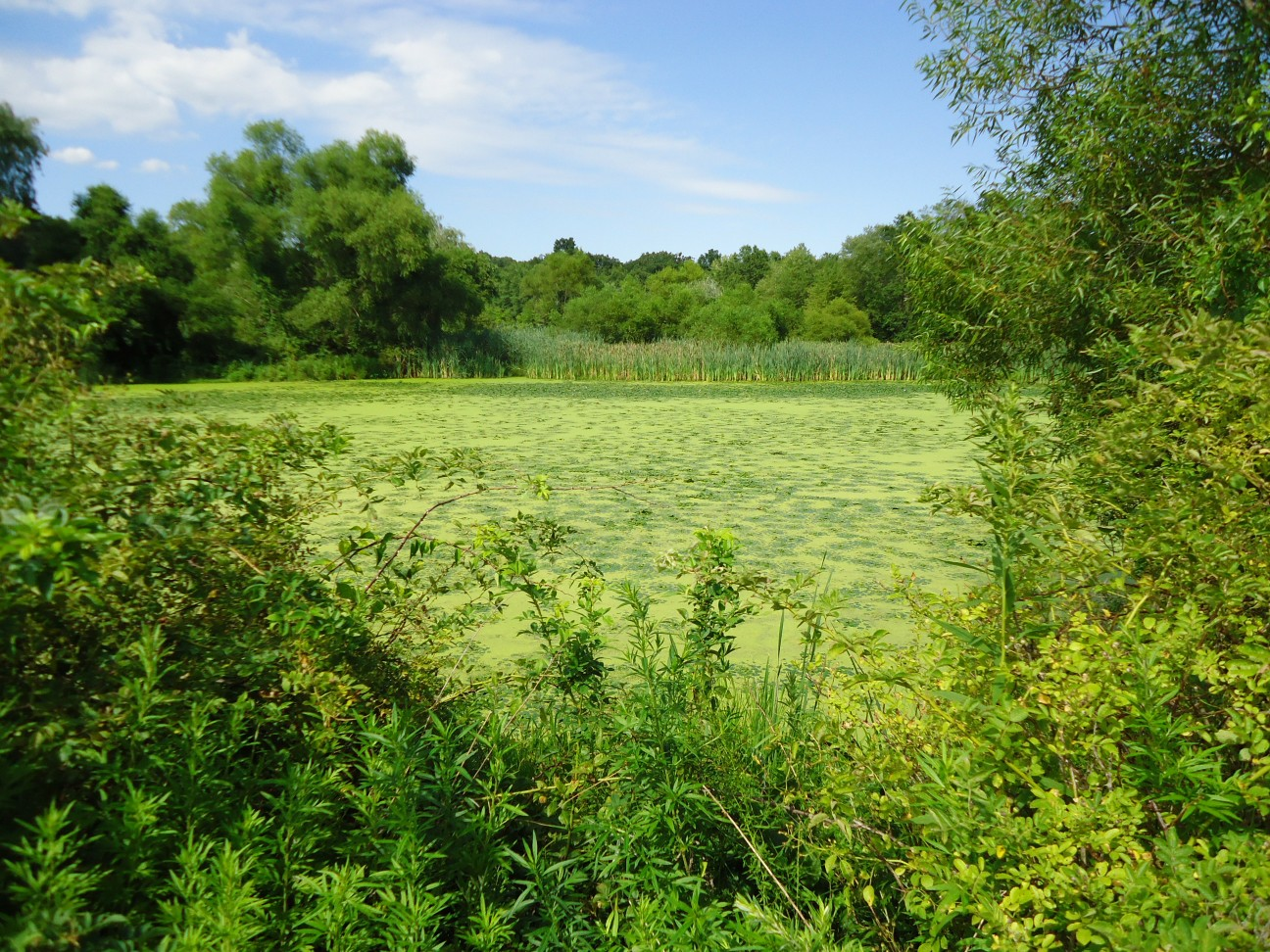 Section of pond covered with algae. The Loantaka Brook Reservation in Morris County, New Jersey, has 570 acres of nature trails for biking, jogging, horseback riding, picnics, athletic fields.